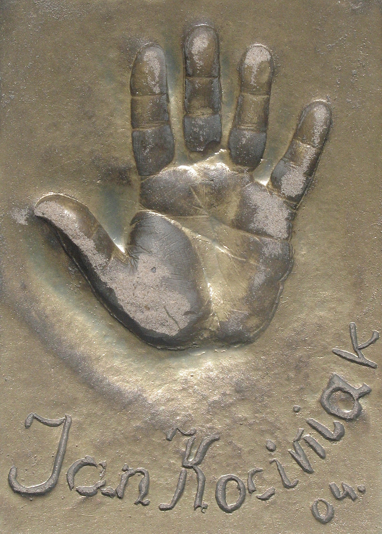 Jan Kociniak - handprint and signature in Międzyzdroje.